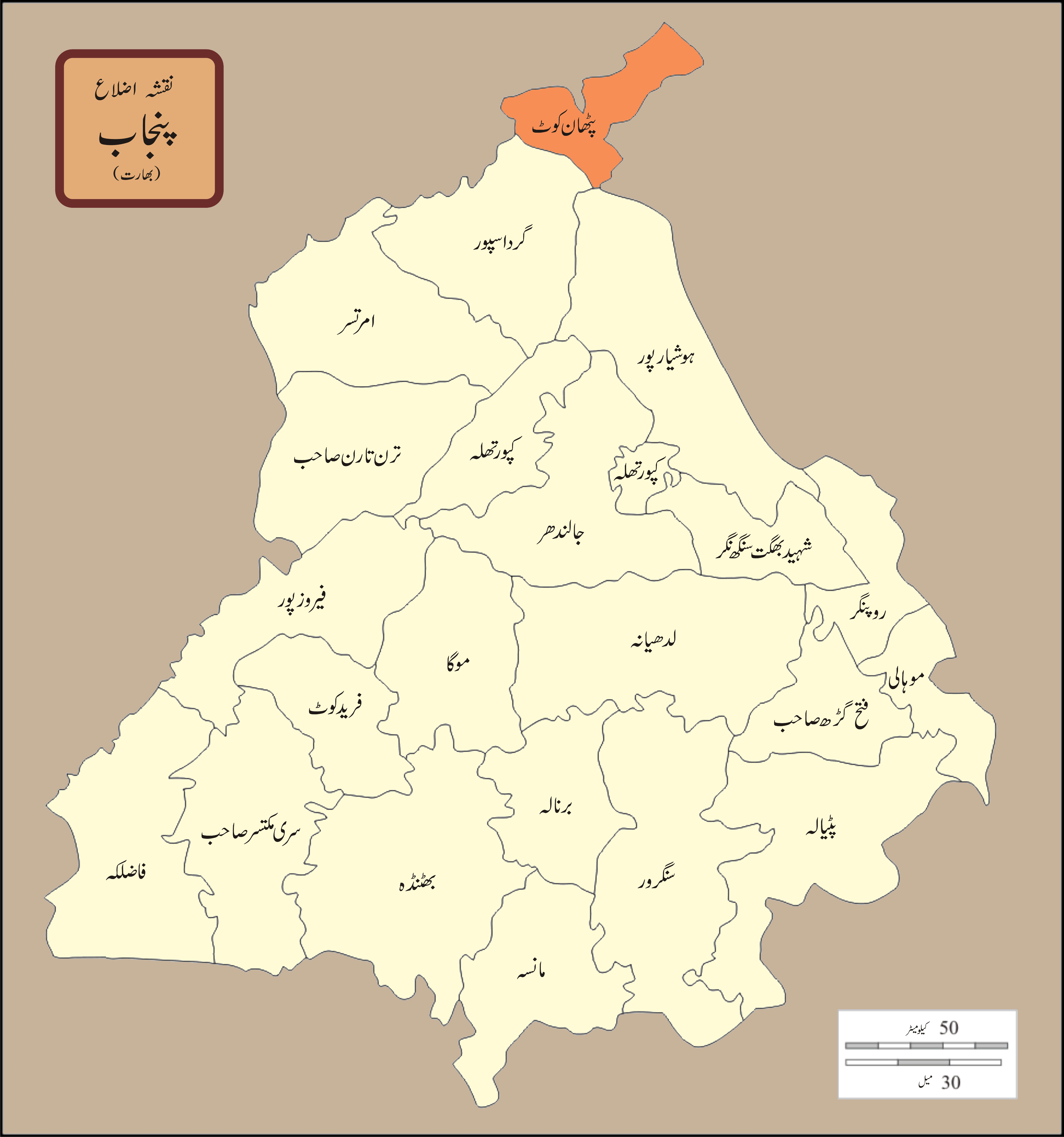 Punjab India Dist Pathankot (Urdu)